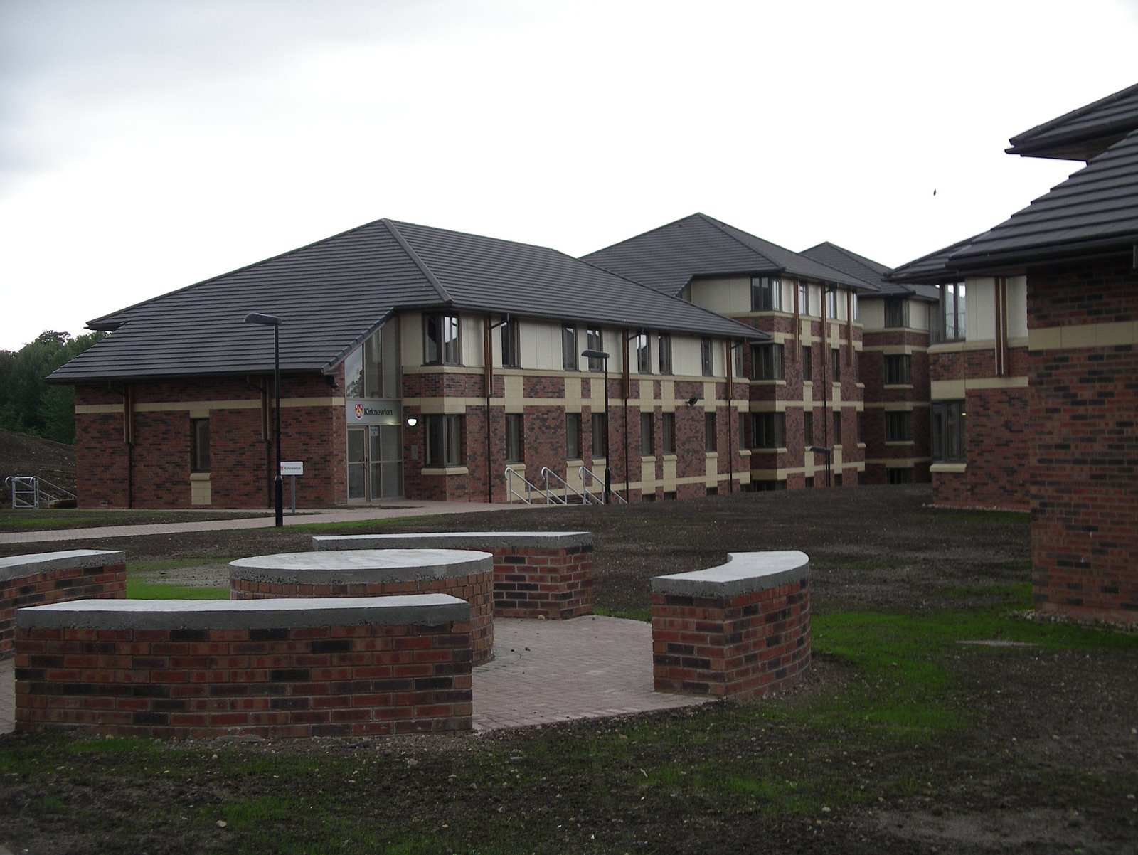 Butleraccomm